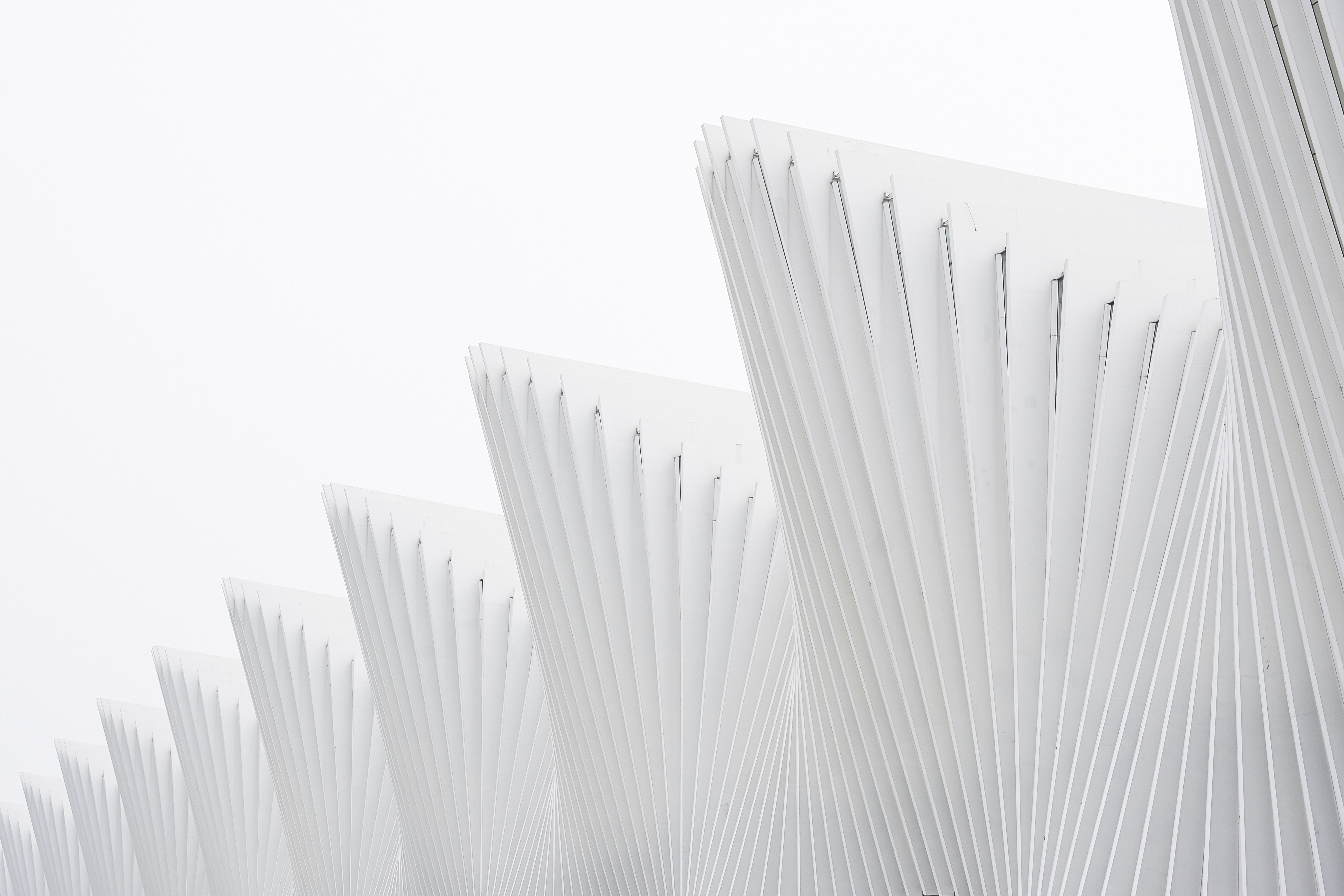 Reggio Emilia AV Mediopadana, Italy